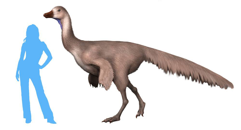 Arkansaurus fridayi restoration